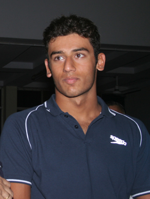 In 2008, Pratham Books launched their 150th title "Kolhapur to Beijing---Freestyle!", amidst great excitement and fanfare. The book was released simultaneously by Virdhawal Khade, Olympians Nisha Millet and Hakimuddin Habibulla , Ashok Kamath [ Managing Trustee, Pratham Books] and the book's author Mala Kumar. In a run up to the launch, Pratham Books had engaged in getting children to wish the swimmer before he proceeded to Beijing. Over 32,000 children and adults sent wishes through post, email, and also posted messages on the Pratham Books website and blog site. A 164 ft (50m) long greeting card carrying these messages was presented to Veer. It was a heartening sight to see young children holding up the card for Veer and wishing him luck. A nostalgic Veer said, "I'm very grateful to Pratham Books for having brought out this book, it brings back so many memories which would have otherwise been lost forever."